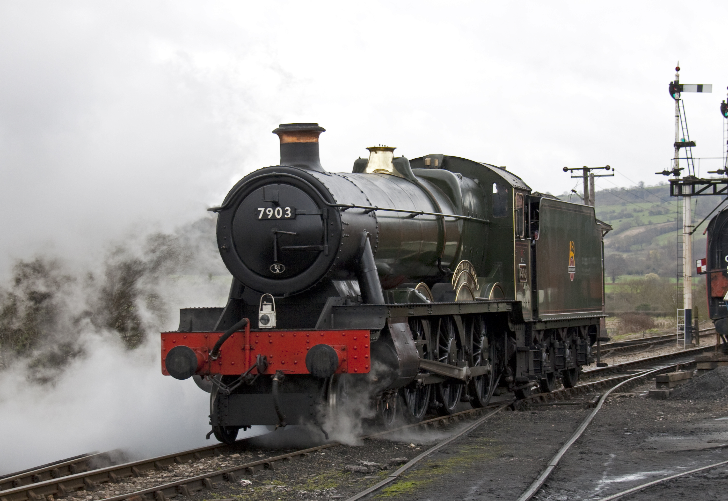 A cold Easter bank holiday Monday at Toddington